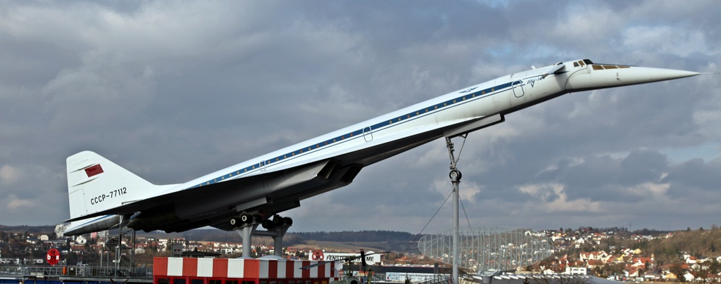 Tupolev TU 144 as on display in Sinsheim, Germany